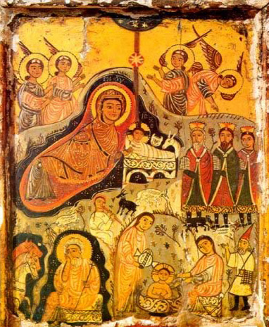 6th century icon from Monastery of St. Catherine in Sinai, encaustic Nativity icon depicts Mary attending to the Christ Child.